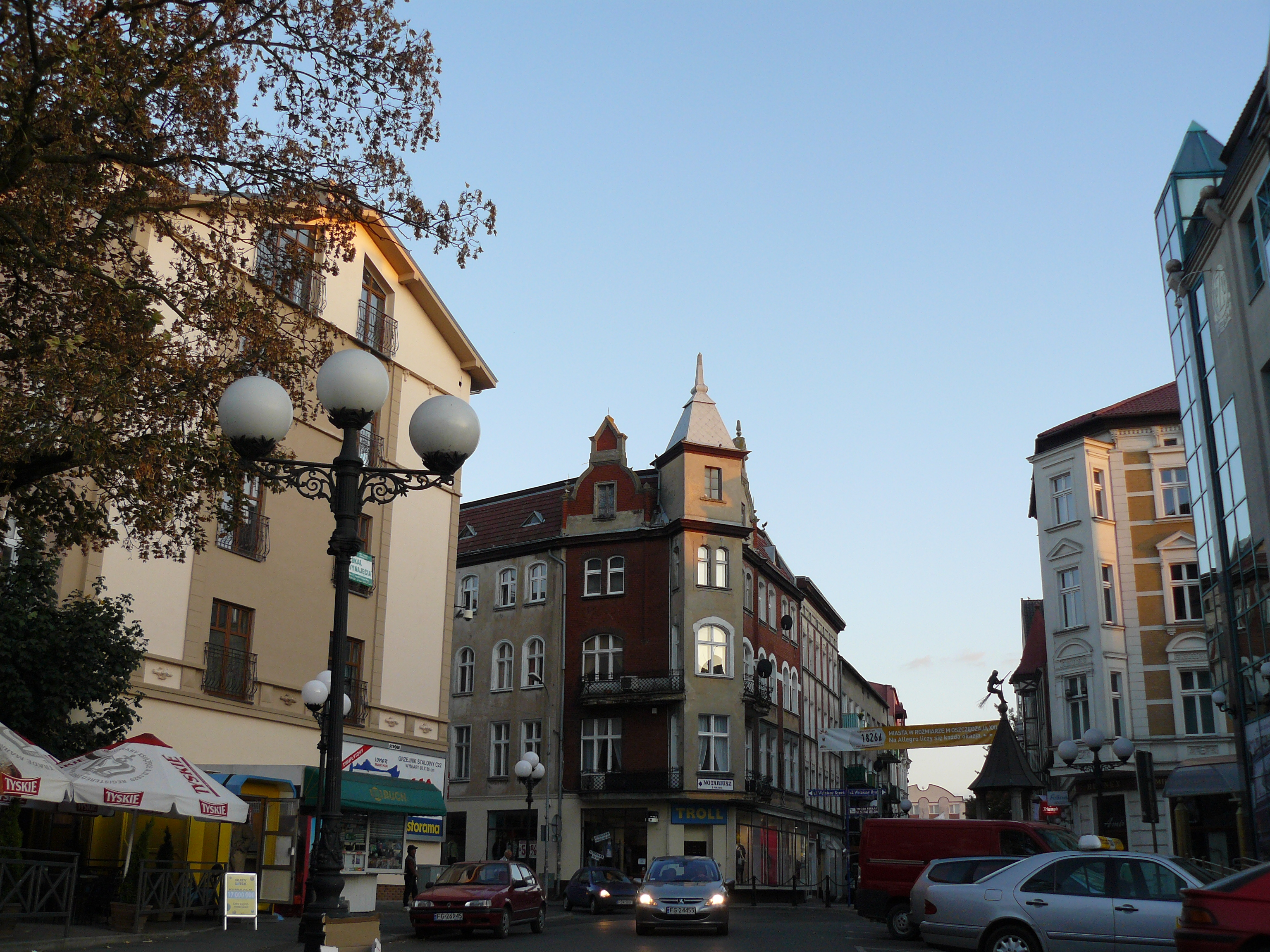 Hawelańska Street in Gorzów Wielkopolski, Poland.